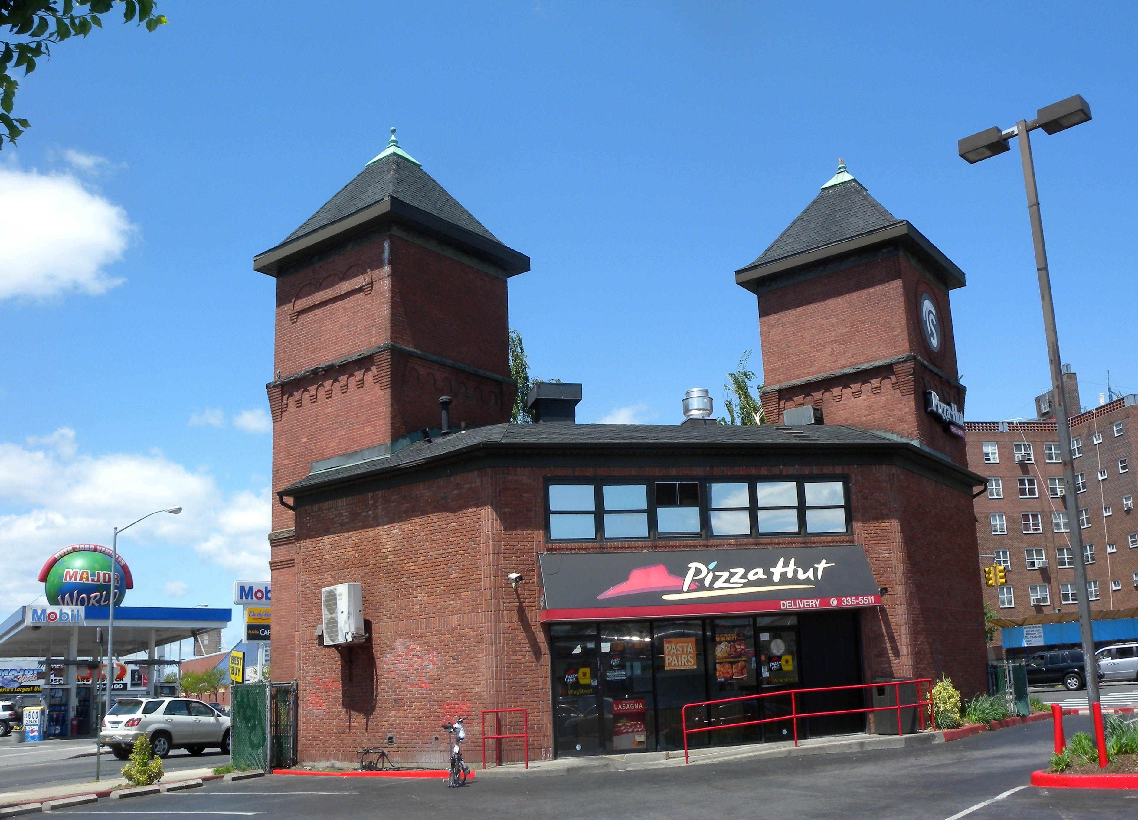 Looking northwest at former car barn of Steinway Railway at Woodside Avenue (left) and Northern Boulevard (background) on a sunny midday.